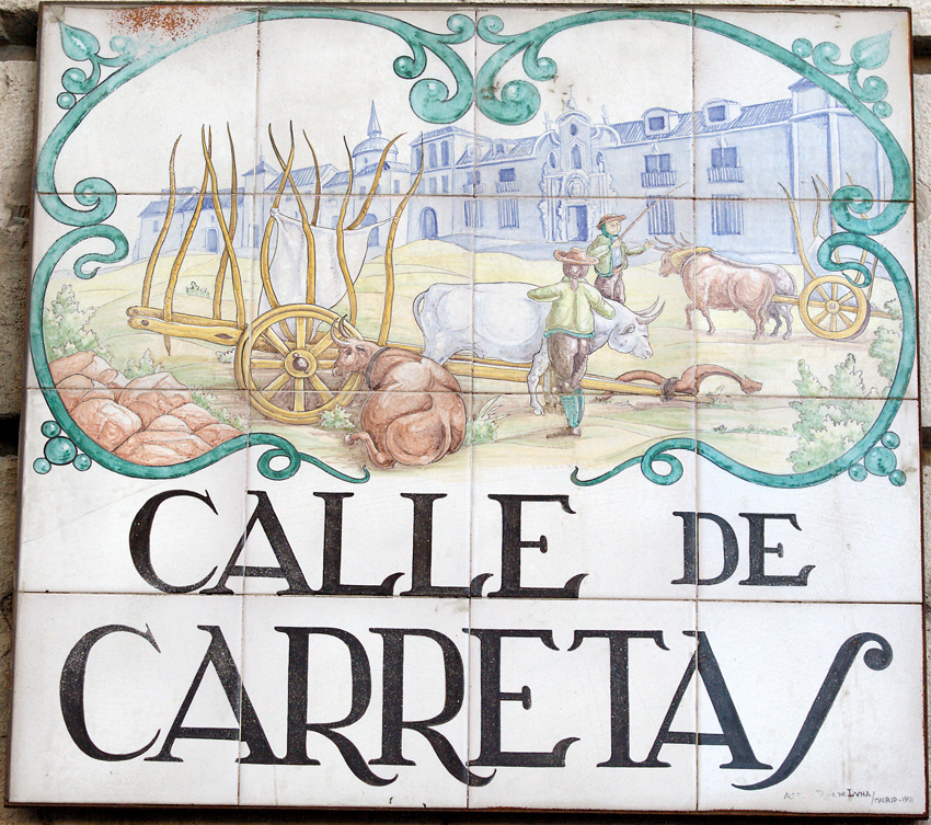 Sign of Calle del Águila (street, Centro district) in Madrid (Spain).